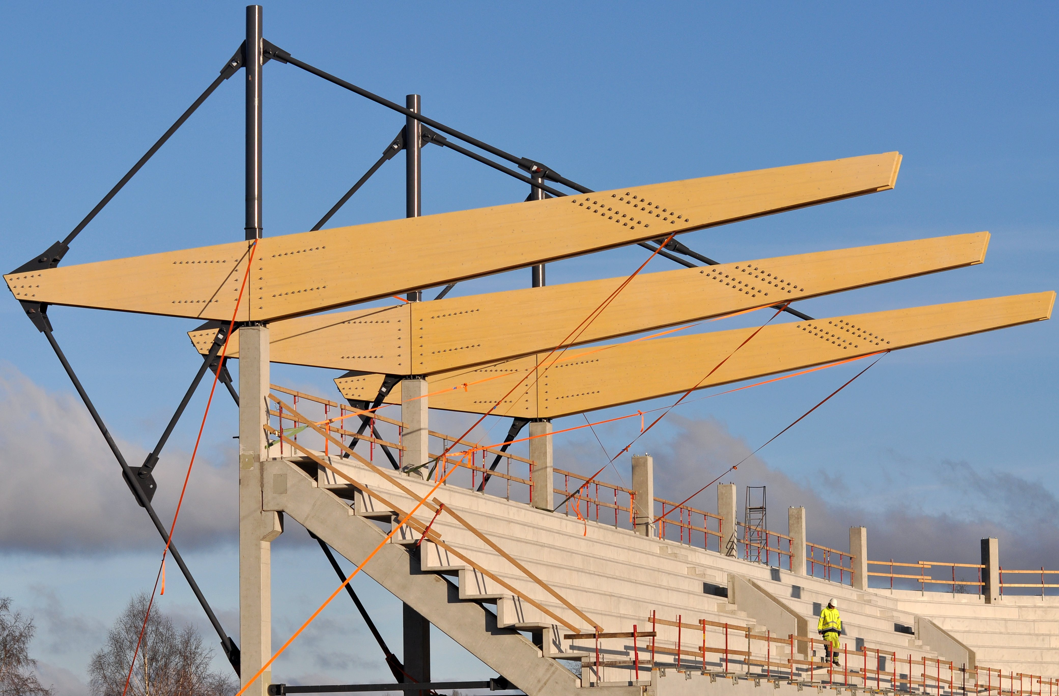 The first three roof support beams in place at the upcoming Myresjöhus Arena, Nov 10 2011.